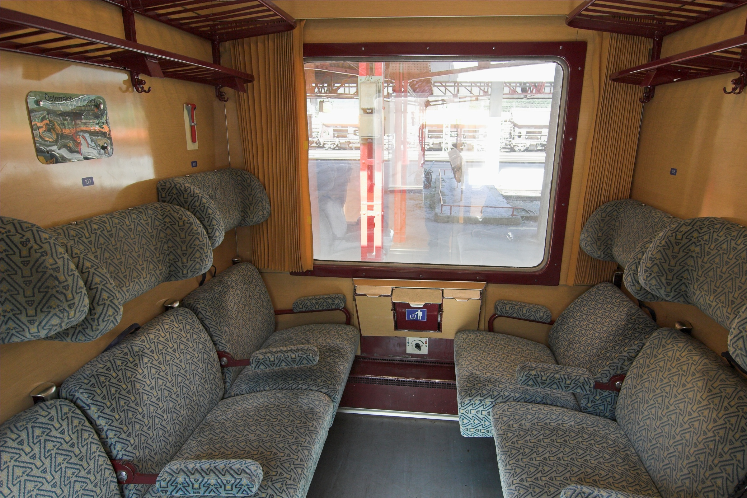 2nd class compartment of a compartment carriage of an ÖBB 4010 EMU.